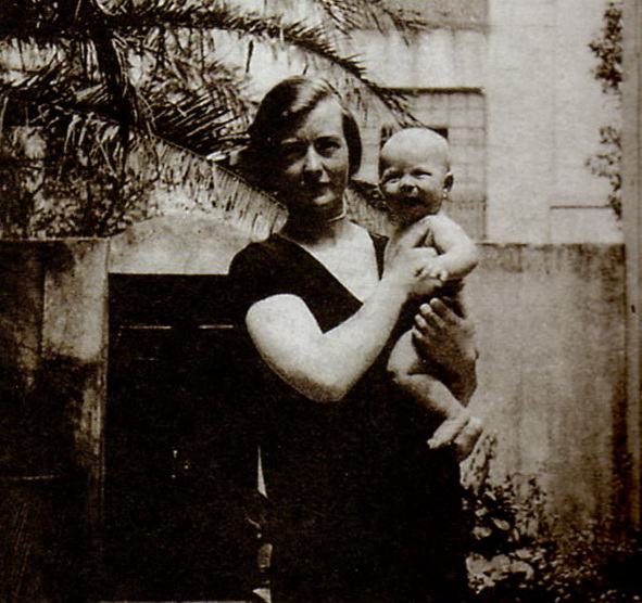 Alfredo Di Stefano with mother